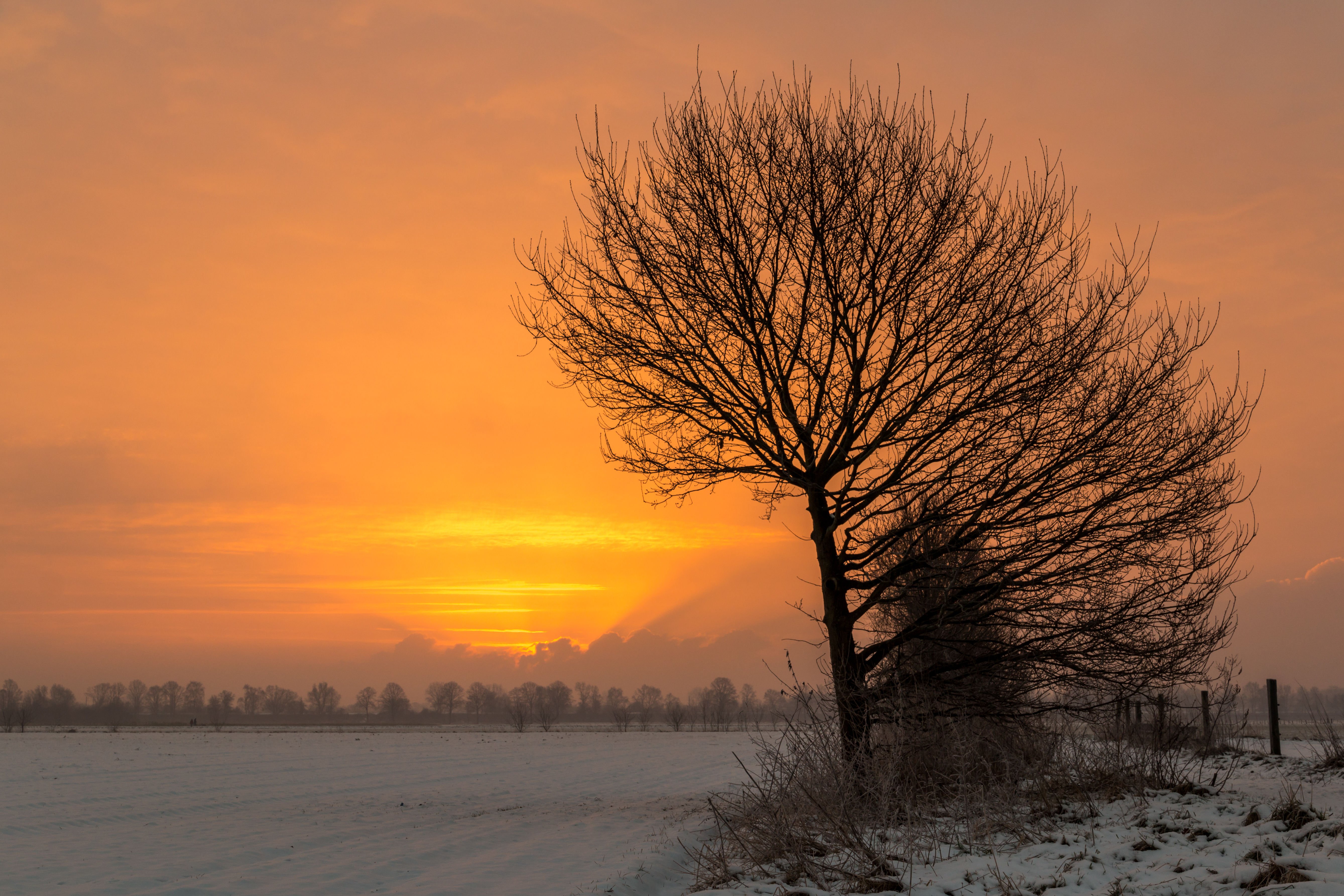 Sunrise near Hausdülmen, Dülmen, North Rhine-Westphalia, Germany